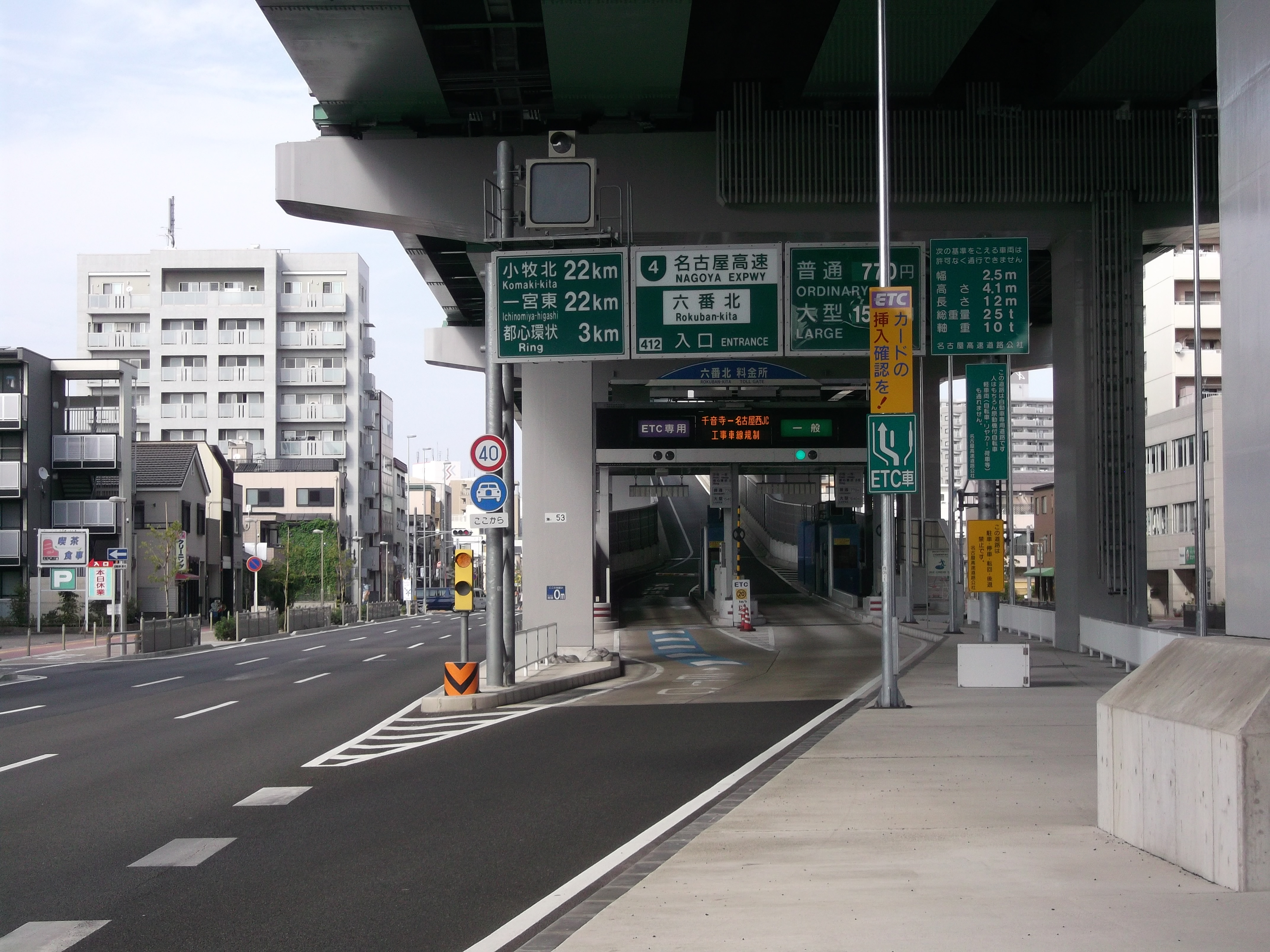 Rokuban-kita Interchange on the Nagoya Expressway Route 4 in Atsuta-ku, Nagoya City